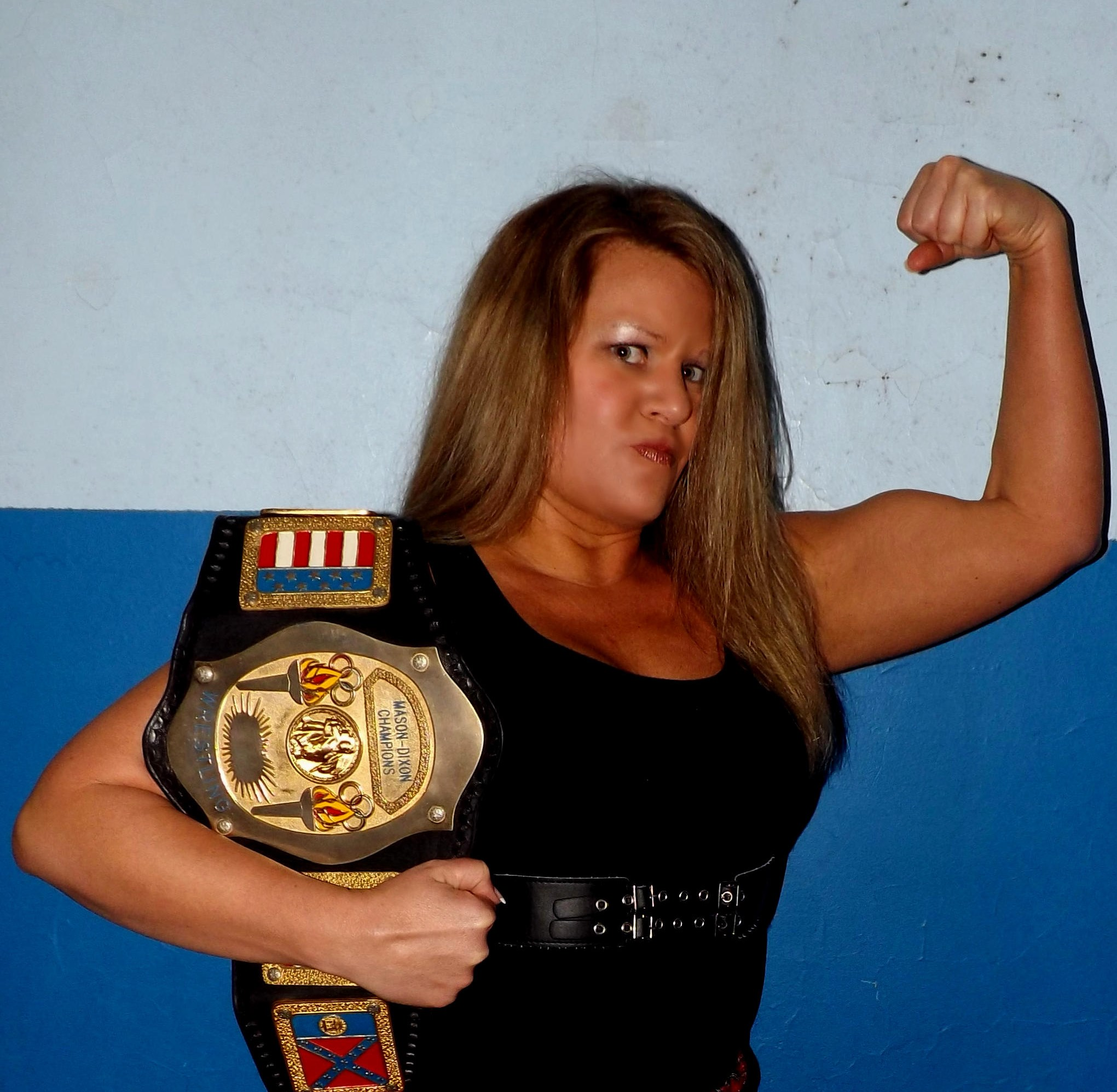 Promotional image of the female wrestler, Fantasia